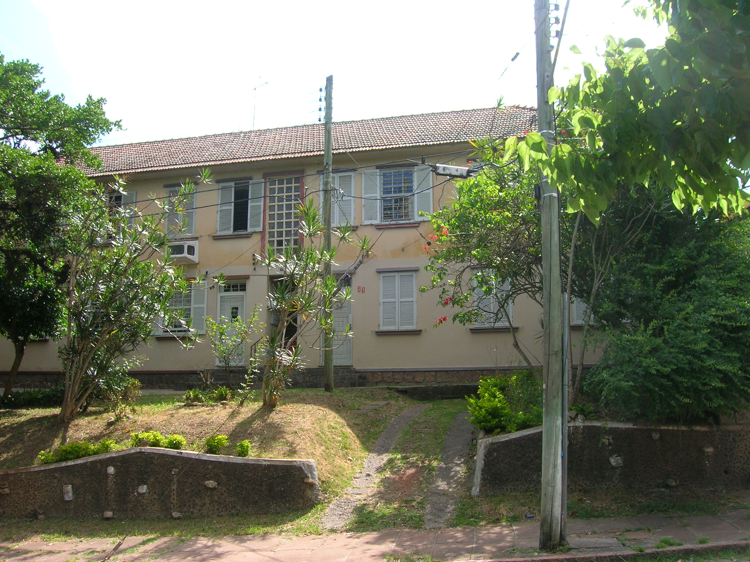 Childhood home of Brazilian singer Elis Regina (1945-1982), in Porto Alegre, Rio Grande do Sul.